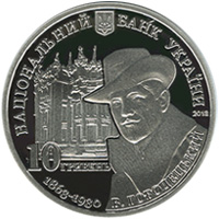 Coin of Ukraine